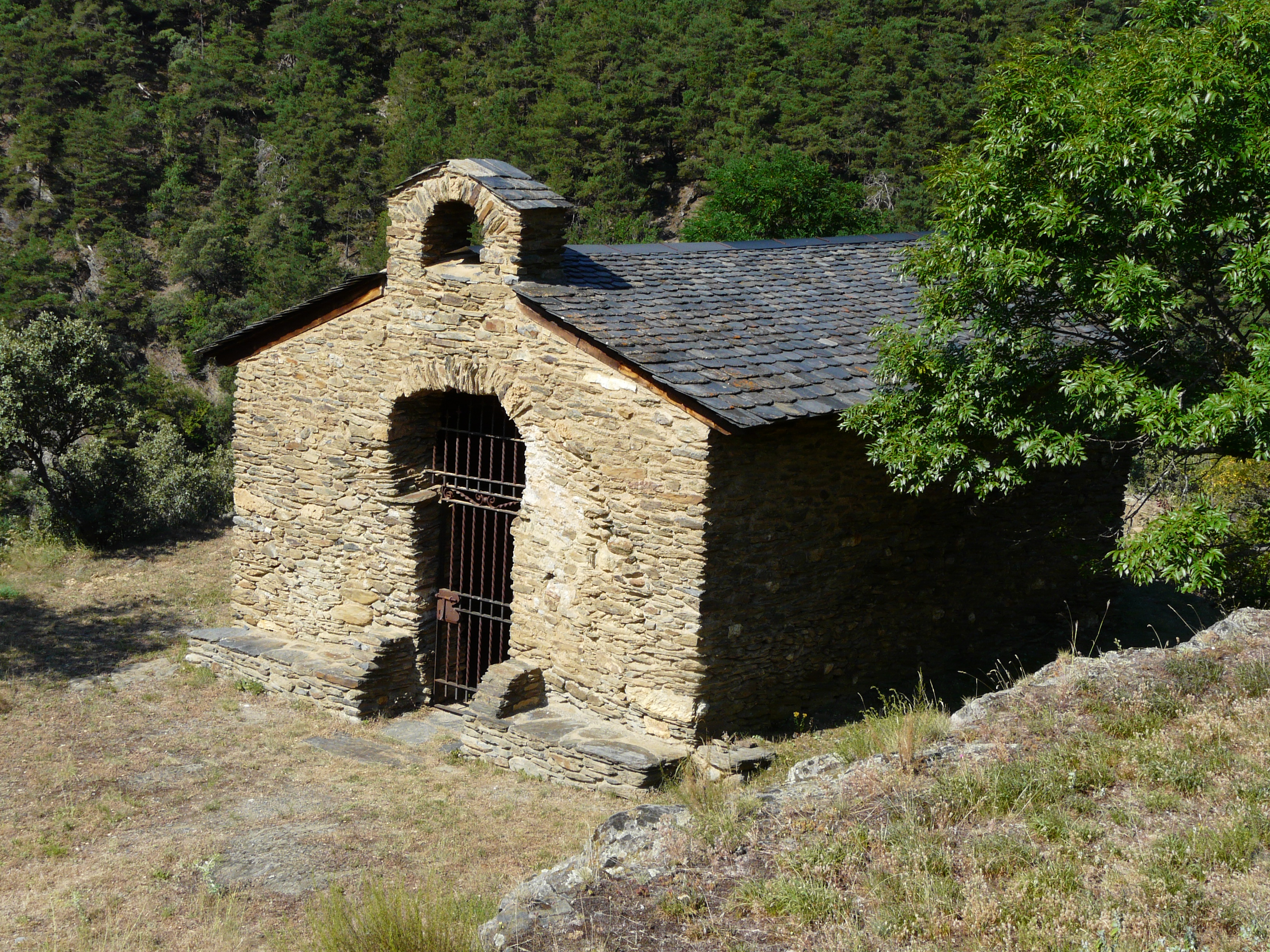 Sant Francesc d'Araós from the northeast 粵語: Sant Francesc d'Araós des del nord-est